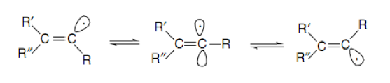 fdsfads